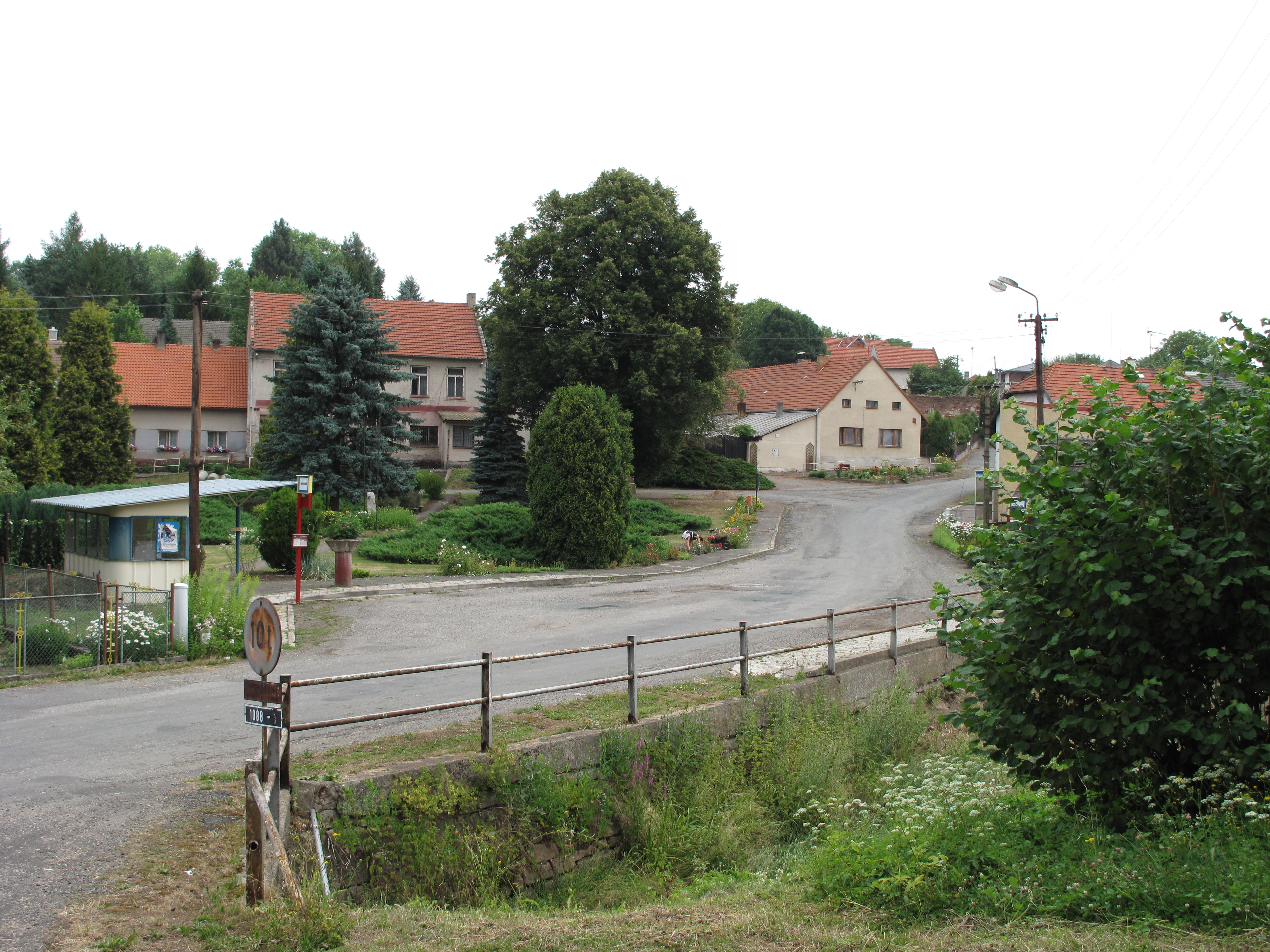 This photograph was taken within the scope of the second year of the 'Czech Municipalities Photographs' grant.